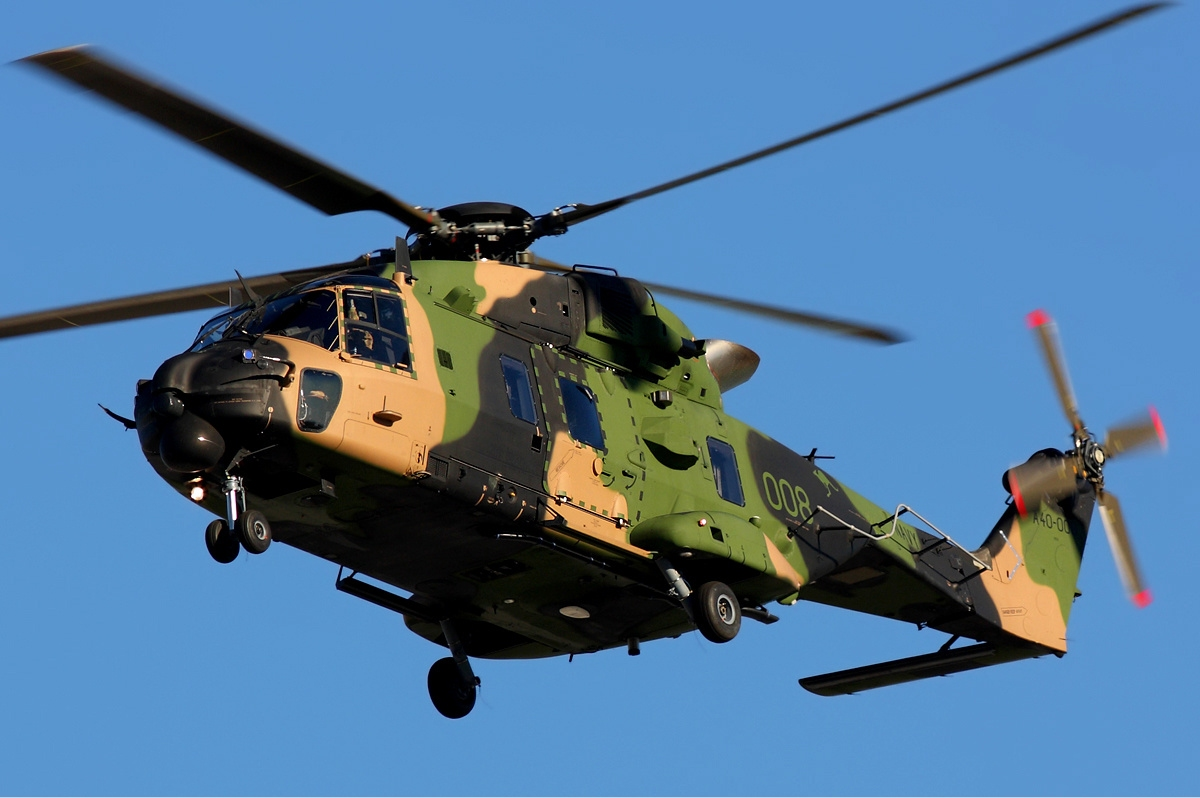 Royal Australian Navy NHI MRH-90